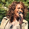 American singer Whitney Houston performing on Good Morning America (Central Park, New York City) on September 1, 2009.